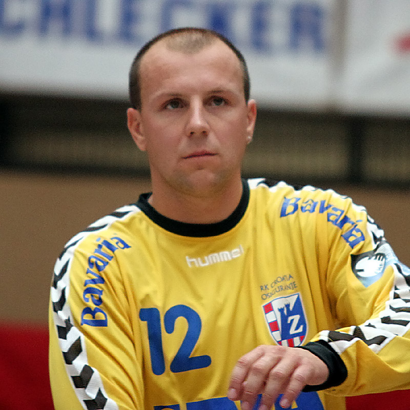 Gorazd Škof, Slowenian handball goalkeeper, playing for RK Zagreb, on August 22nd, 2009 in Ehingen (Germany), during the Schlecker Cup 2009.